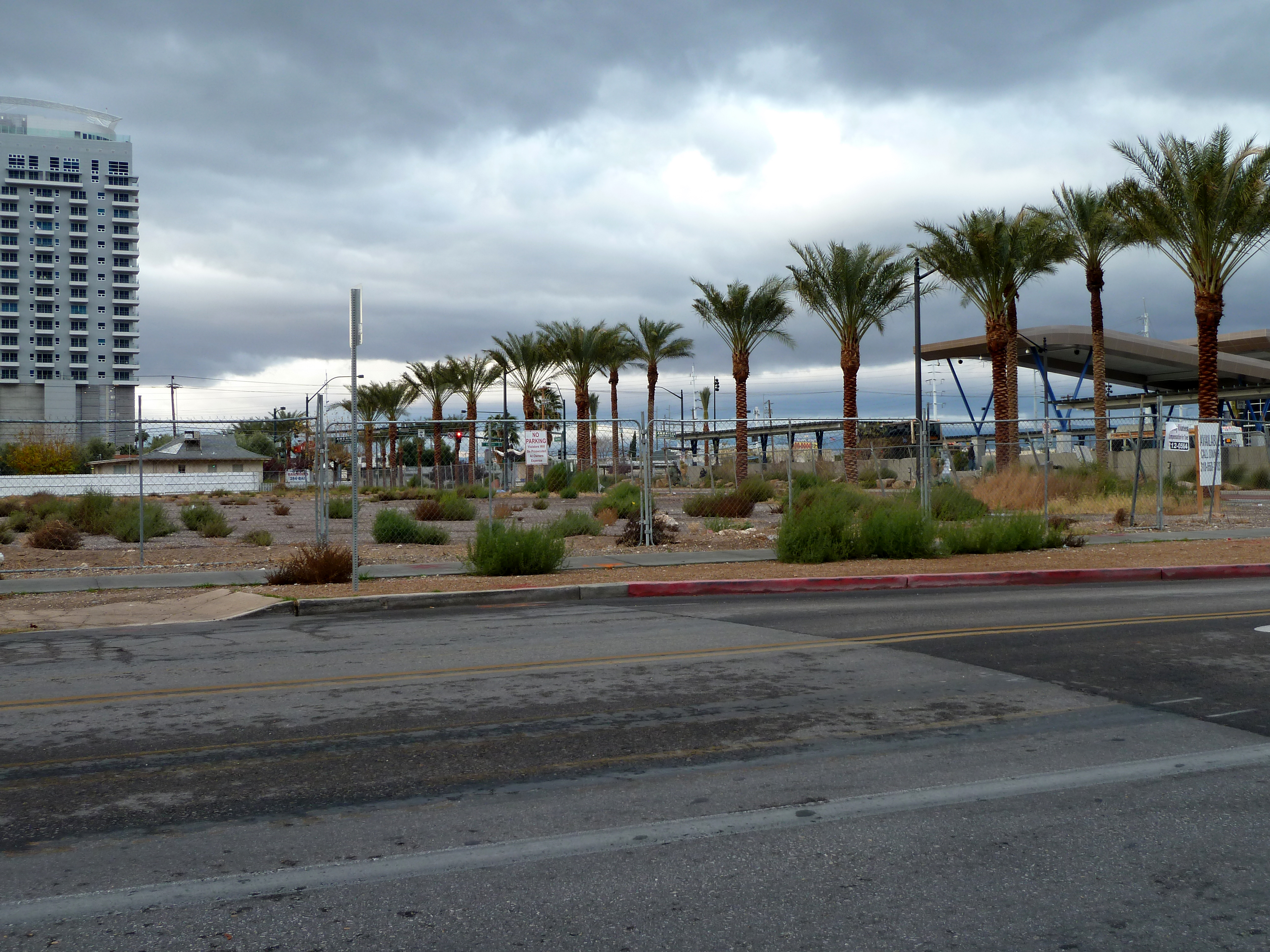 Dirt lot where that was most of the Railroad Cottage Historic District, Las Vegas, Nevada, USA.